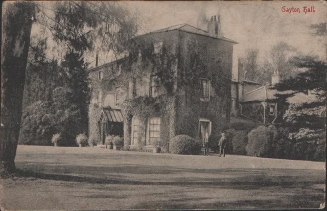 Old Postcard of Gayton Hall at Gayton in Norfolk